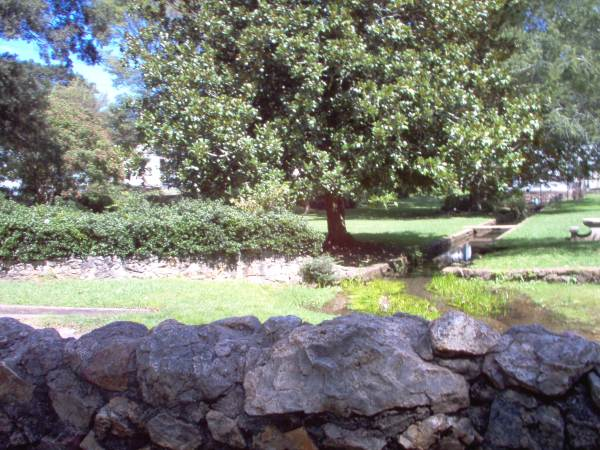 This is a view of Big Spring Park in Cedartown. The picture was taken from the bridge, facing east. Karl Ward 21:35, 9 Sep 2004 (UTC) Captioned As {}